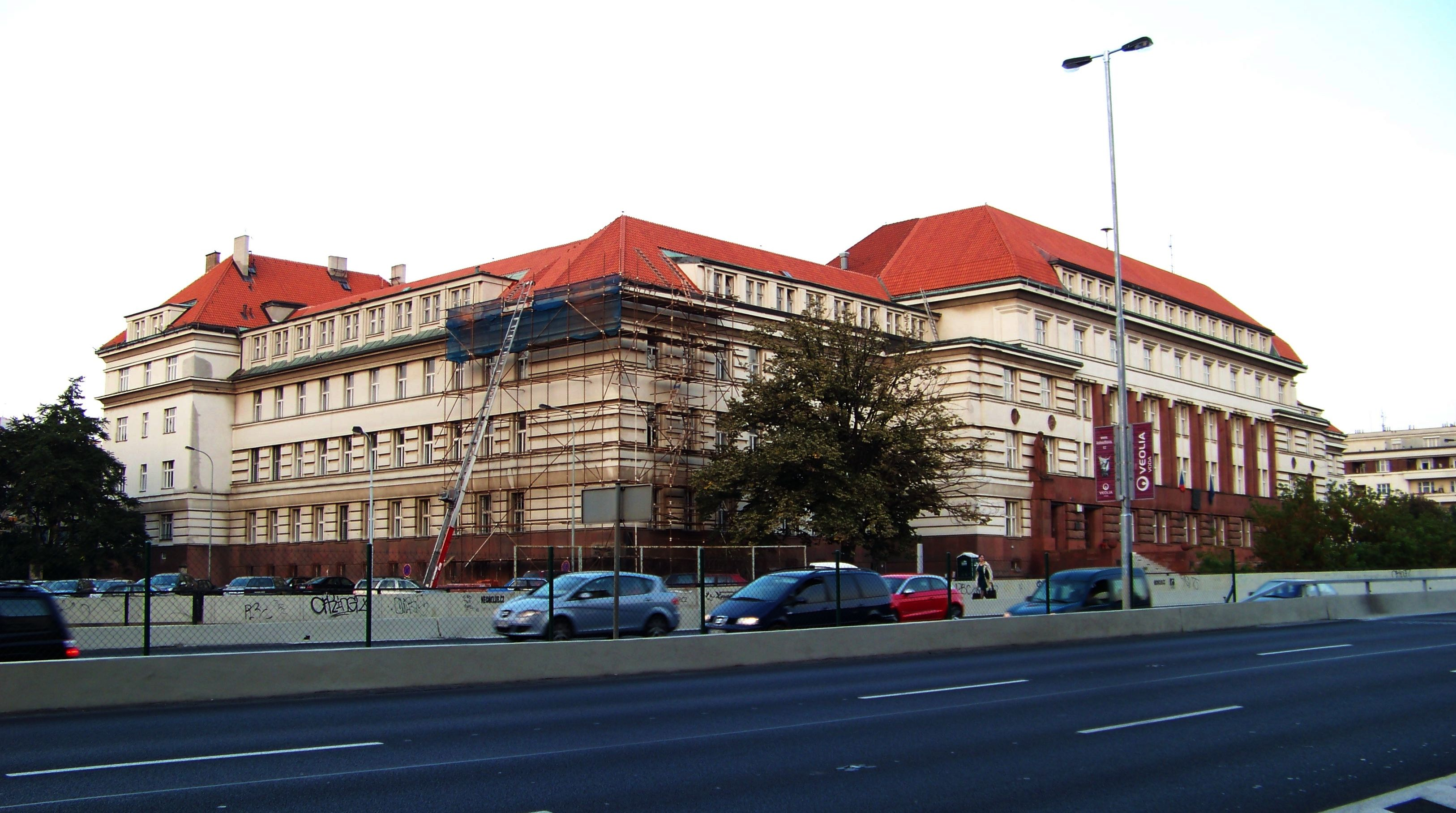 Prague-Nusle, the Czech Republic. Pankrác, Hrdinů Square, 5. května street, a courthouse.